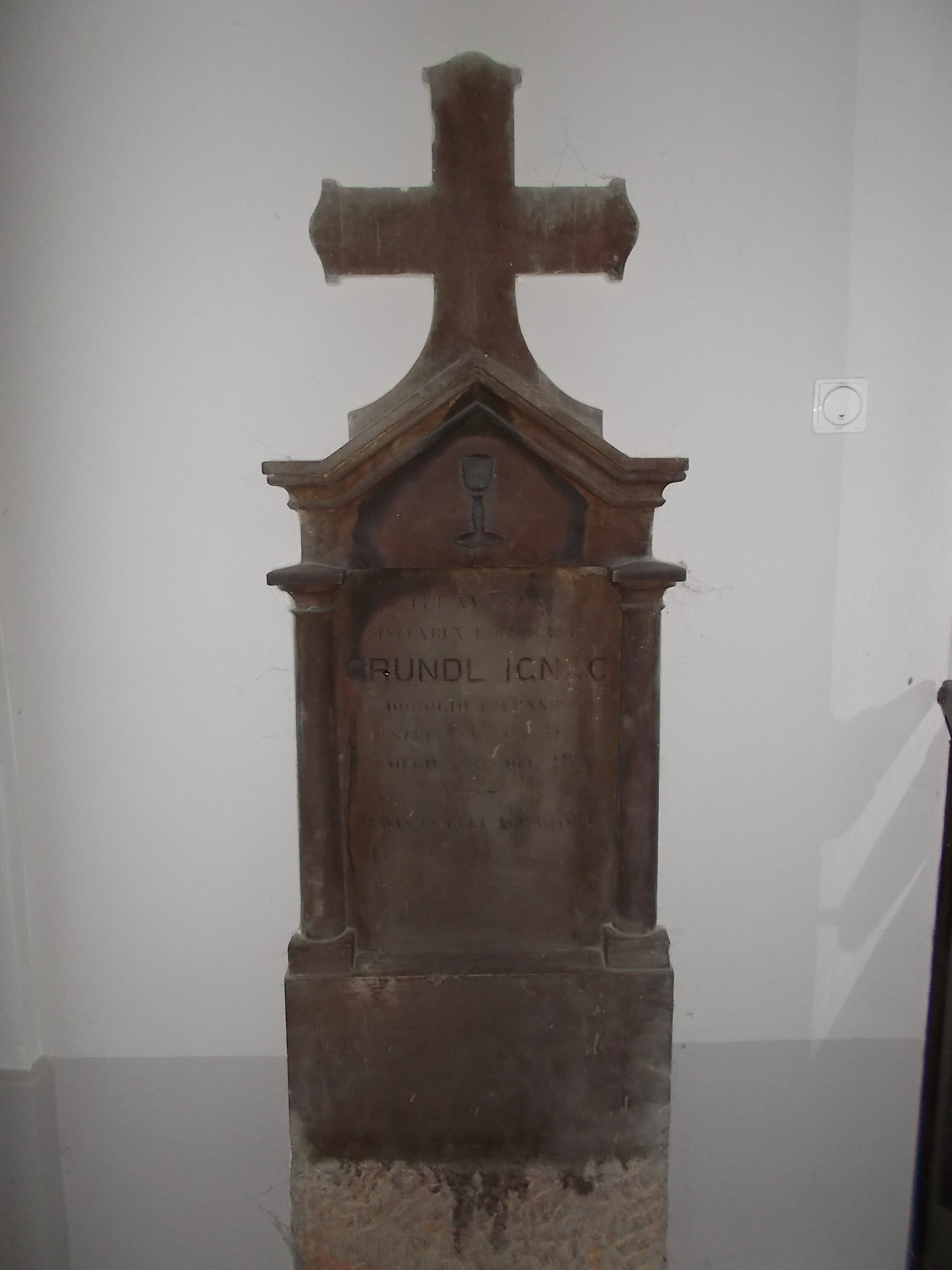 Saint Joseph church, built between 1767-1775. - Templom Square, Dorog, Komárom-Esztergom County, Hungary.